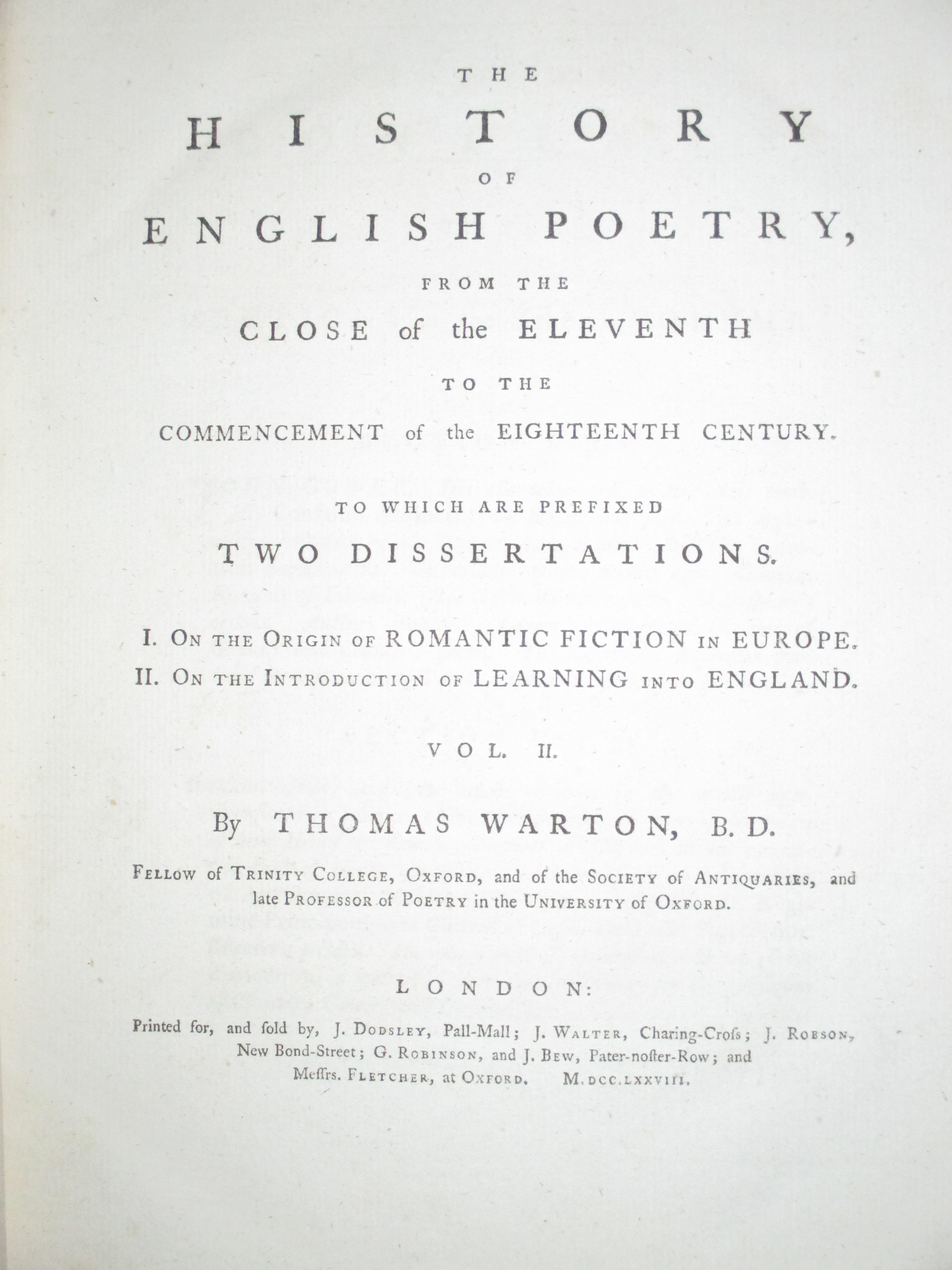 The title-page of the first edition of Thomas Warton's "History of English Poetry", volume 2 (1778).